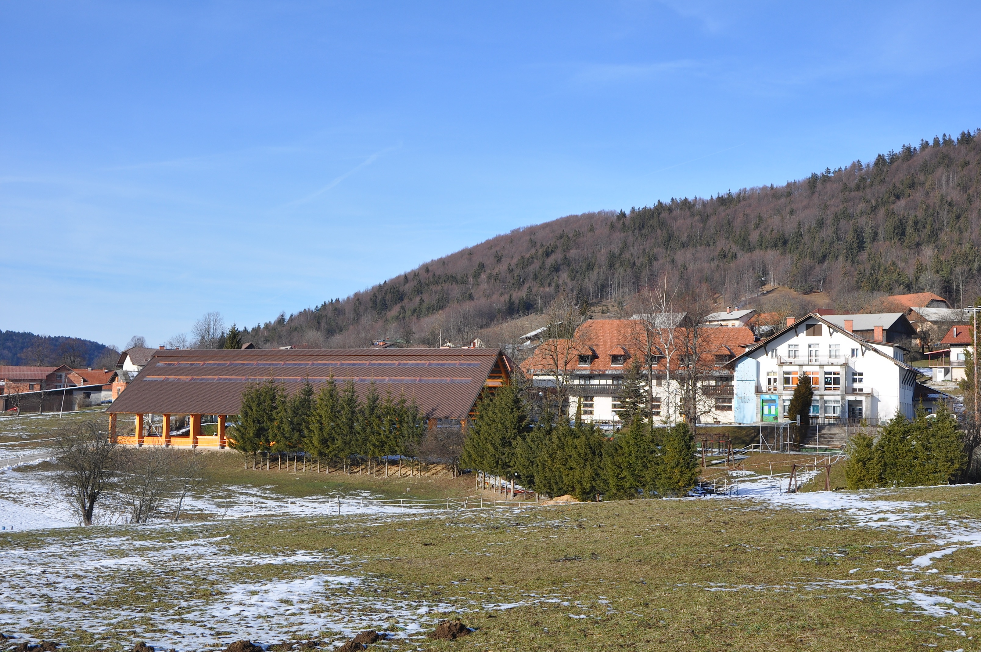 Rakitna climate resort, Slovenia